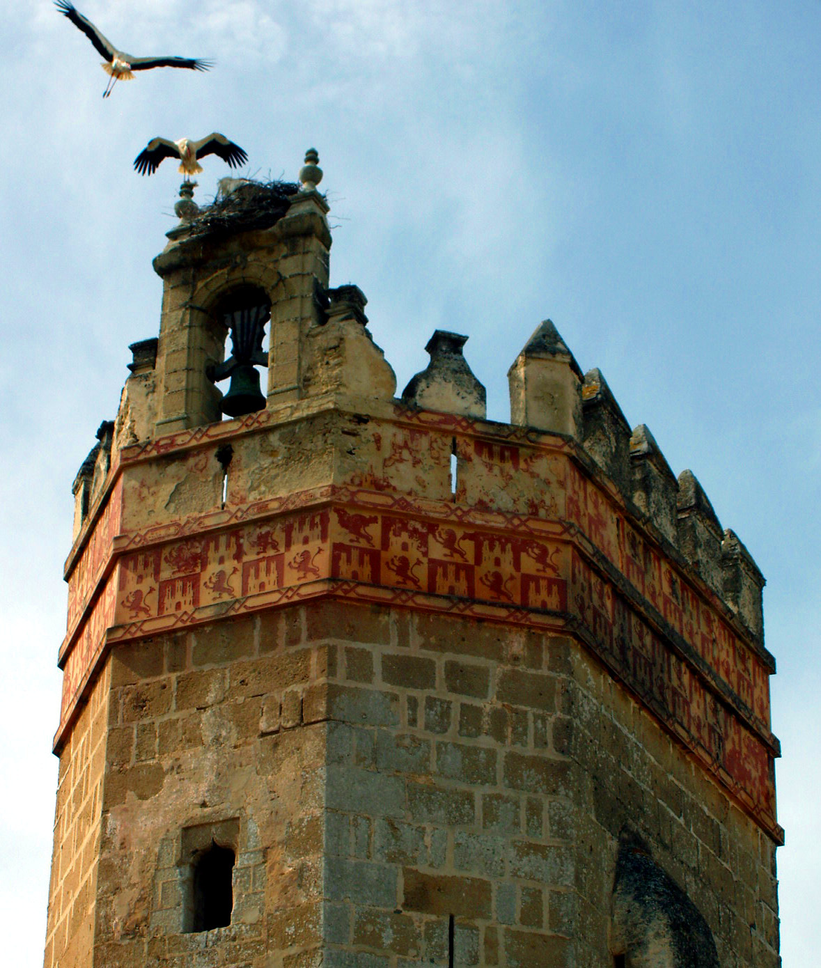 St Marks Castle in El Puerto de Santa María with storks.